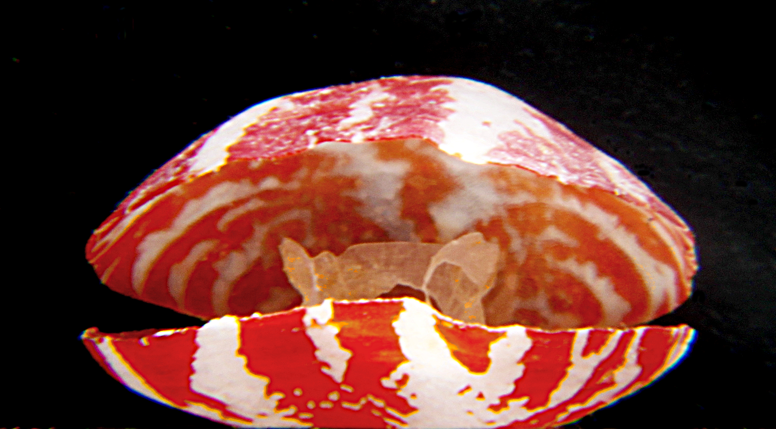 The shell of a recent brachiopod, Frenulina sanguinolenta, 11mm wide, internal view, collected in 2012 near Mindanao, Philippines